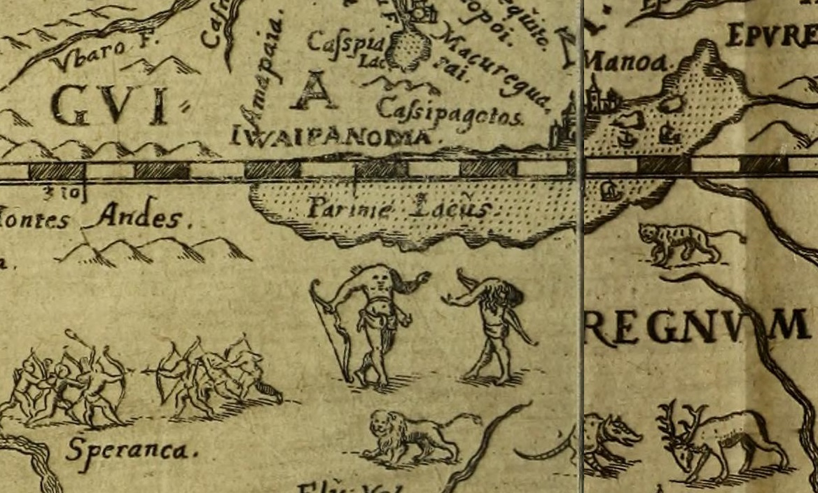 Inset Map in Hulsius edition of Raleigh's Guiana (1599), detail, showing Iwaipanoma or Ewaipanoma